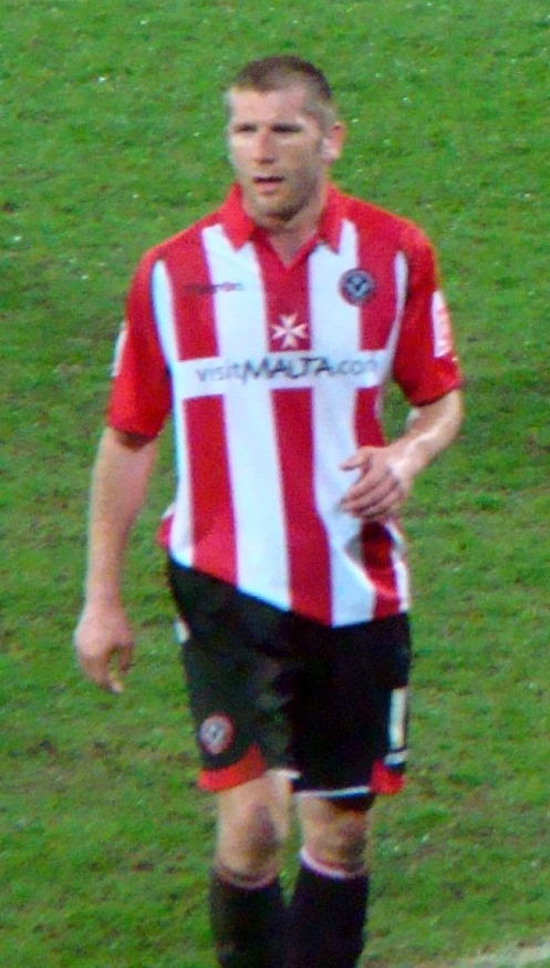 Richard Cresswell playing for Sheffield United against Cardiff City at the Cardiff City Stadium on 24 March 2010